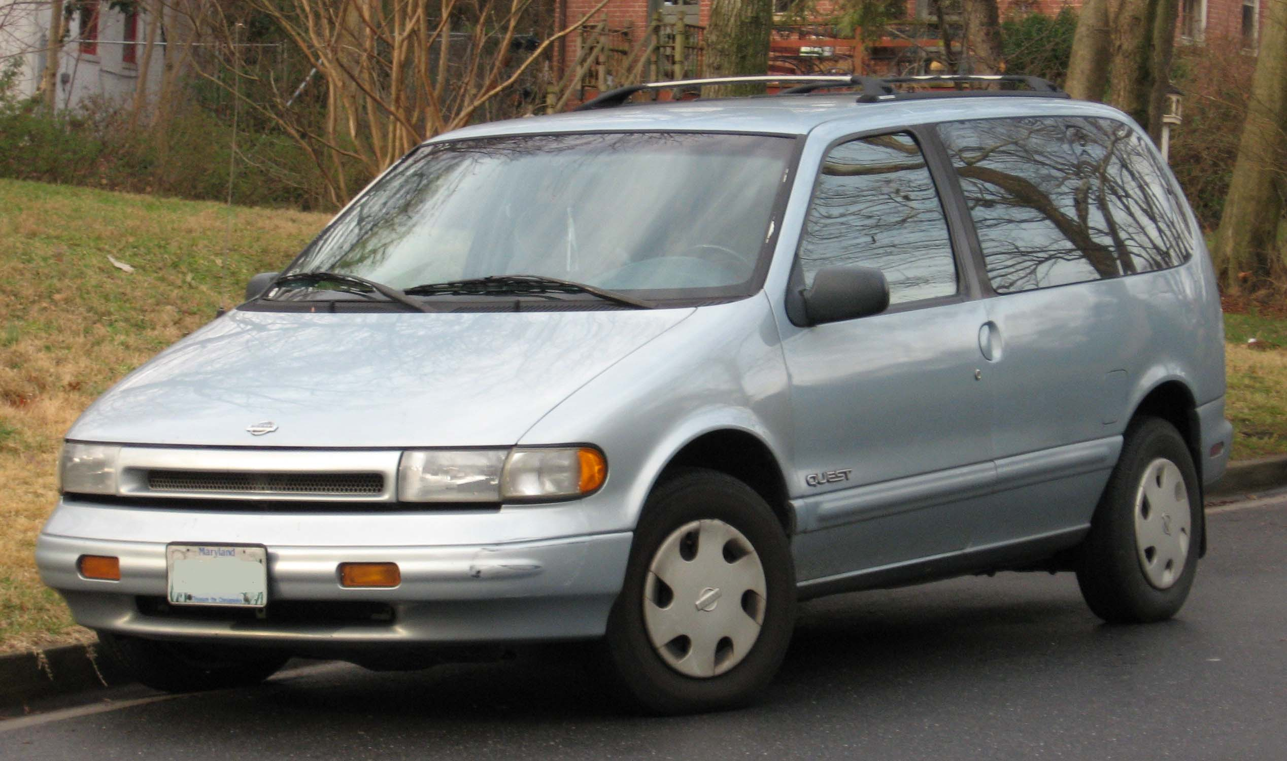 1993-1995 Nissan Quest photographed in USA.